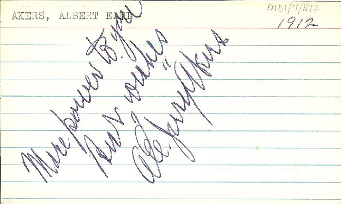 Professional baseball plater Jerry Akers' autograph on a note card.